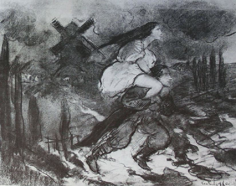 Sketch for an illustration from the French edition of "Viy"